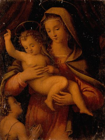 Virgin and Child and San Juanito